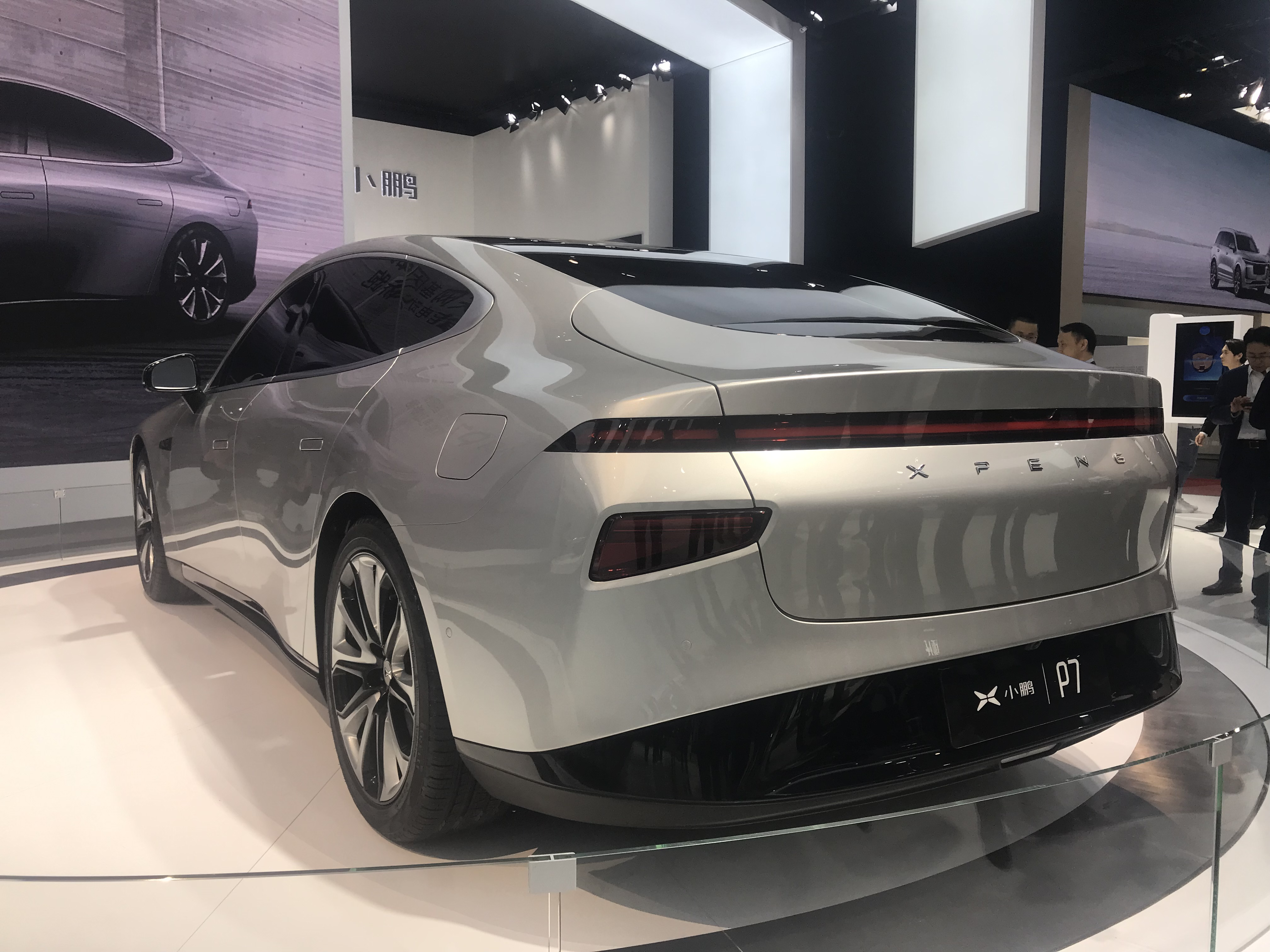 Xpeng (Xiaopeng) P7 rear